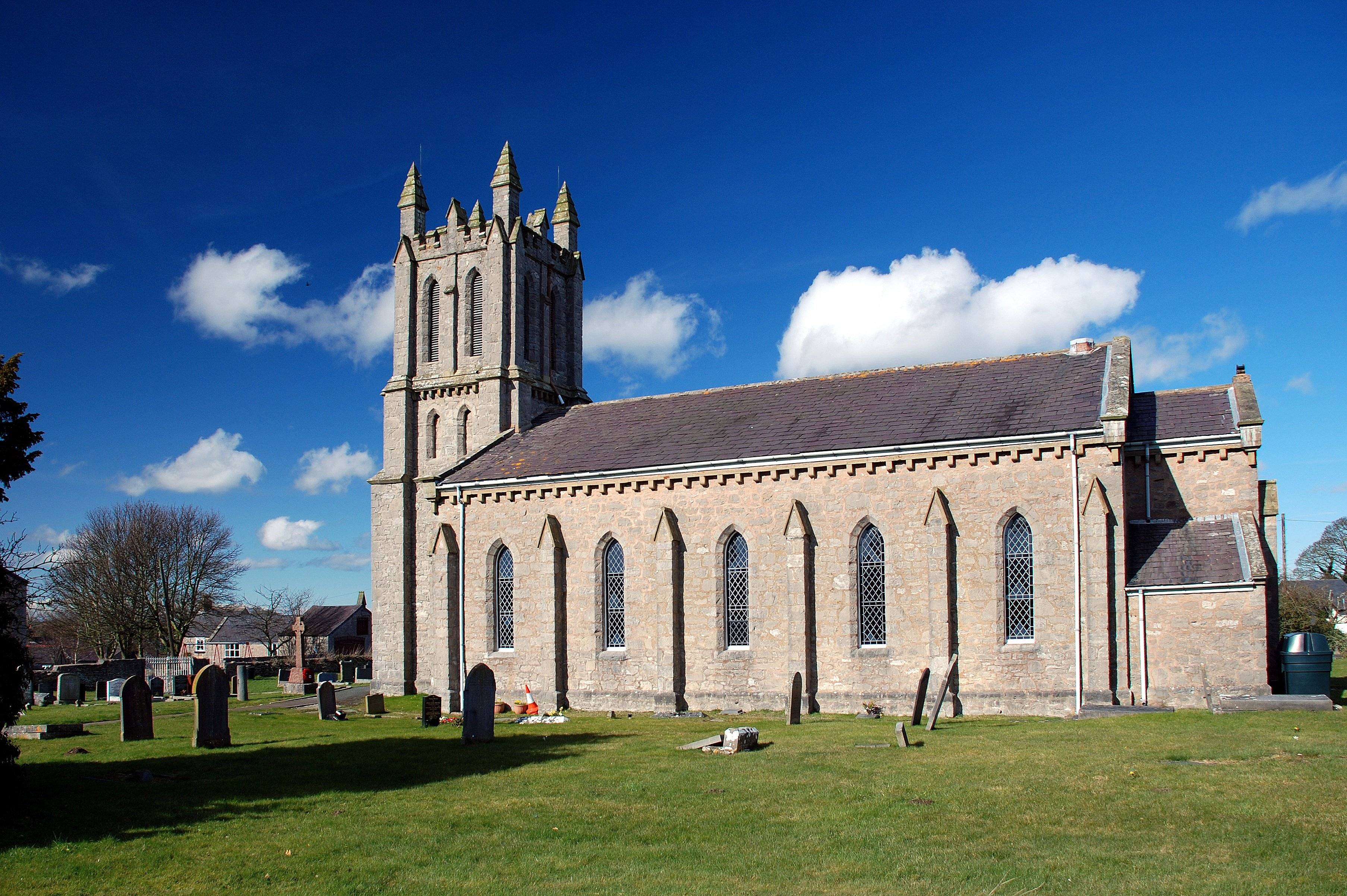 Church of St Mary Wikidata has entry Q29501664 with data related to this item.